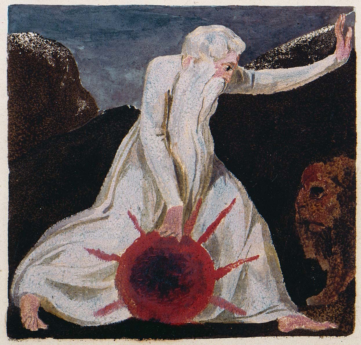 A Small Book of Designs copy A object 7 The First Book of Urizen plate 23